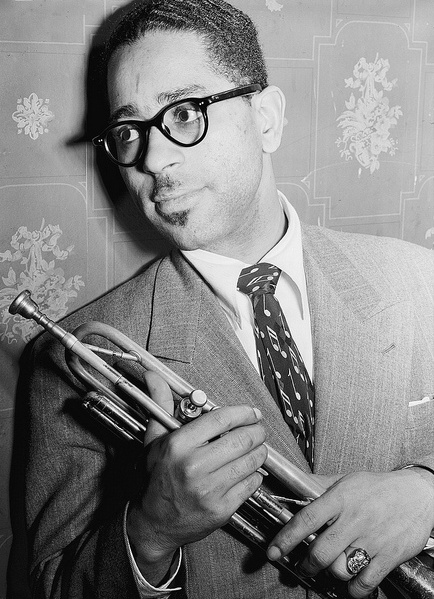 Portrait of Dizzy Gillespie in the Famous Door of New York (N.Y.), in June 1946.